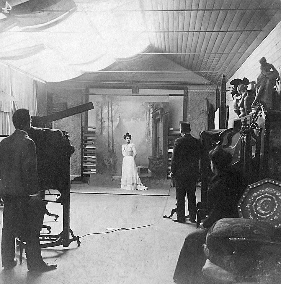 British photographer Alexander Witcomb working at his studio in Buenos Aires.